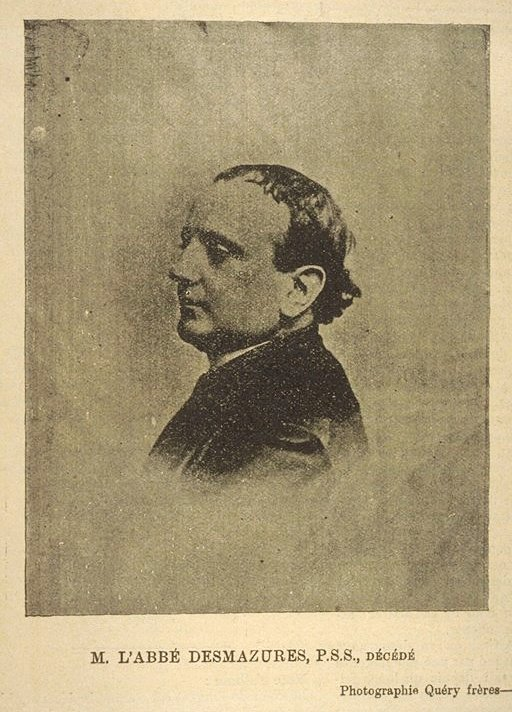 Photograph of Adam-Charles-Gustave Desmazures (1818-1891).